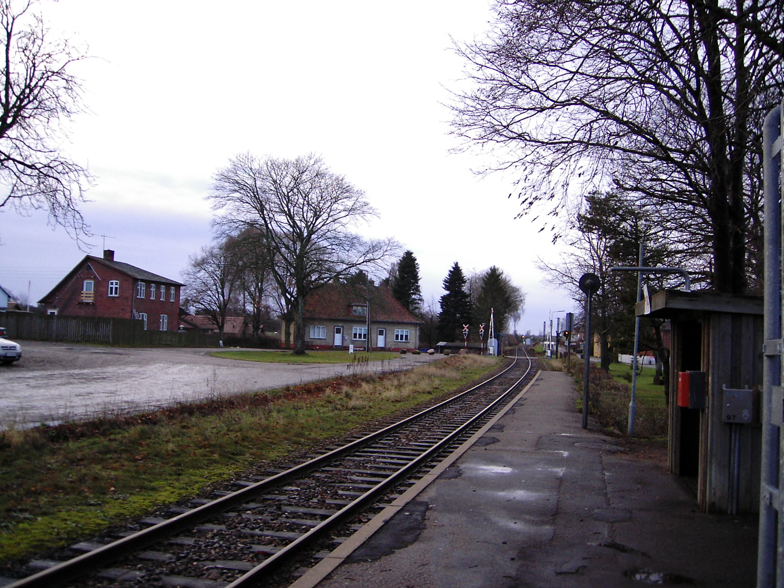 A picture of the Danish village of Nyrup (Stenmagle Sogn), seen from the station.